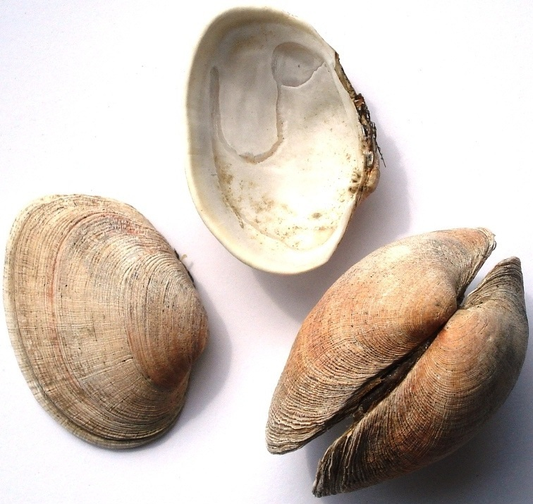 Carpet shell